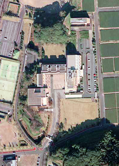 The Geospatial Information Authority took the aerial photograph in Kakegawa City, Shizuoka Prefecture on November 20, 2012.